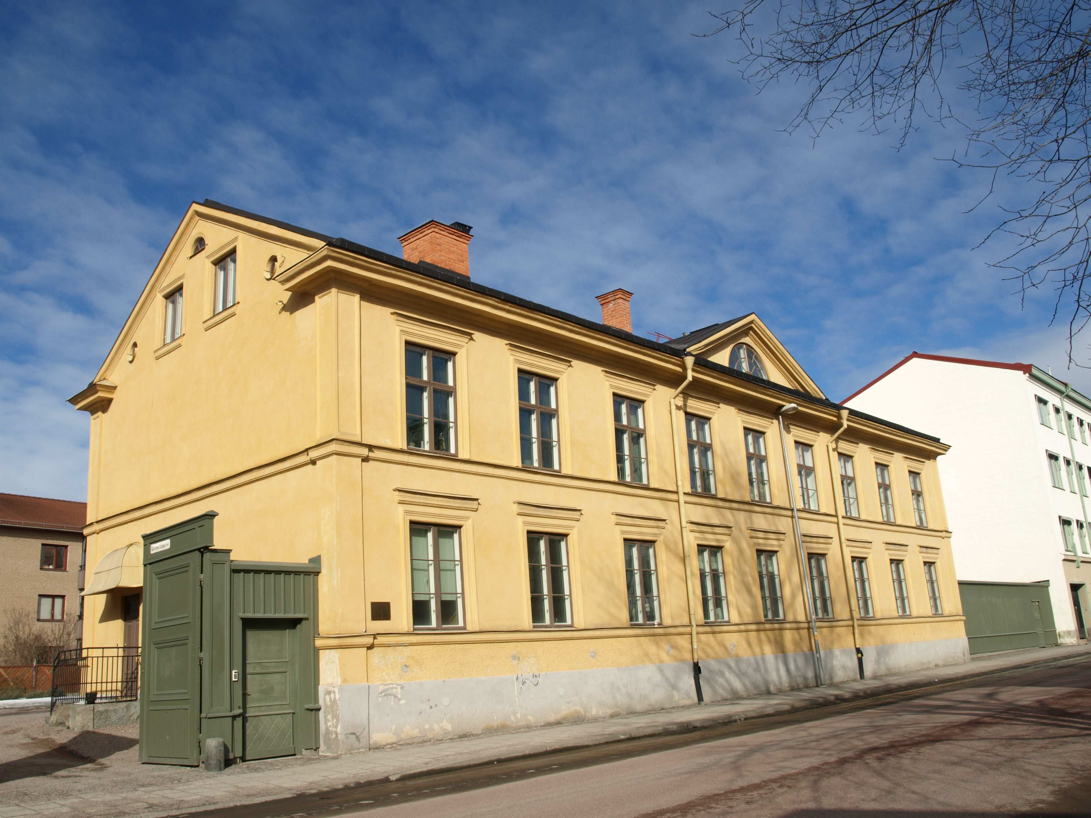 "Prinshuset" - "The princes house" in Uppsala, Sweden. It has got its name from when many sons of king Oscar I has lived in the house during their student time at Uppsala University.